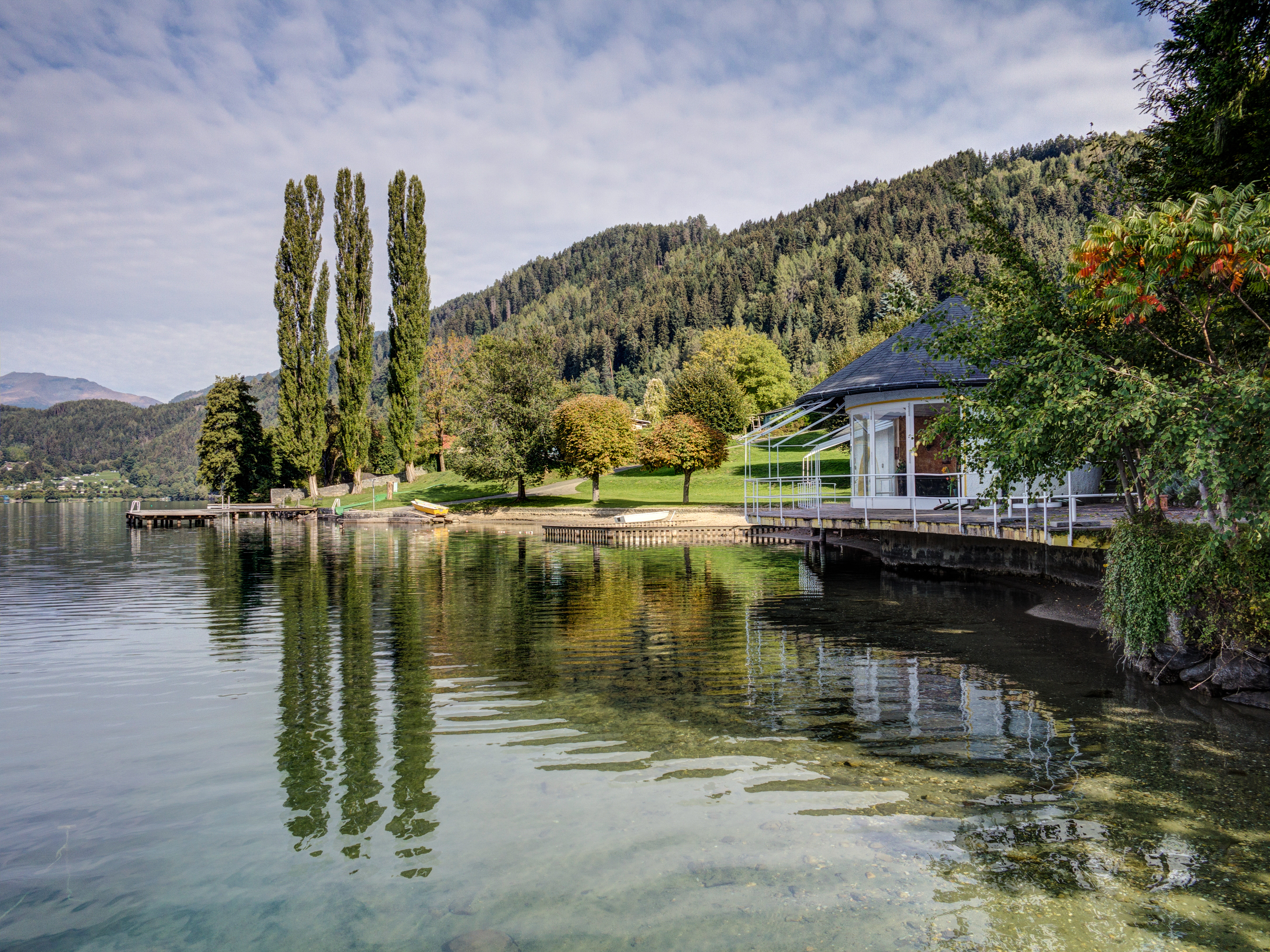 Lido in Dellach at Lake Millstatt in Carinthia / Austria / EU. View to the northwest. The buffet is located in a former boathouse villa.